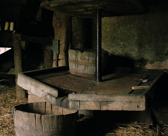 Smith Hayne Farm's cider press.